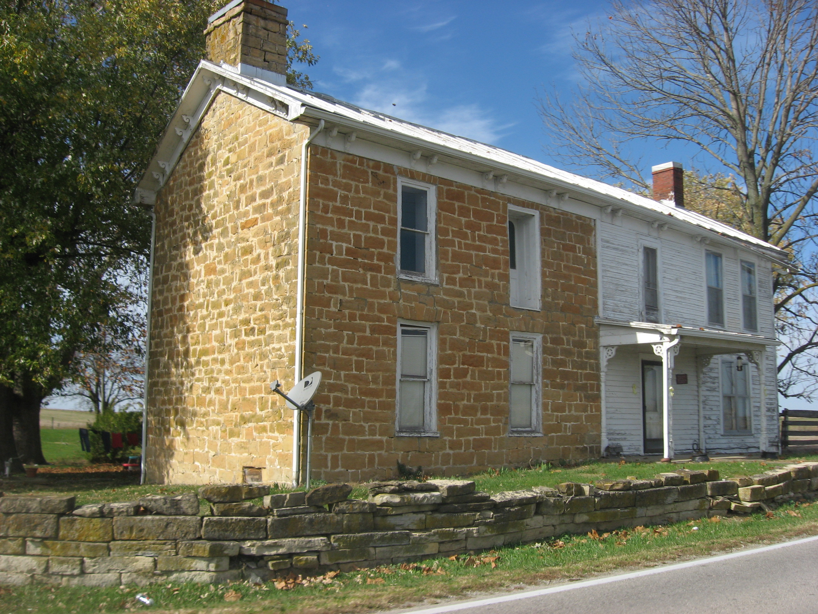 Front and southern side of an old farmhouse located along State Route 41 north of Peebles in Meigs Township, Adams County, Ohio, United States.